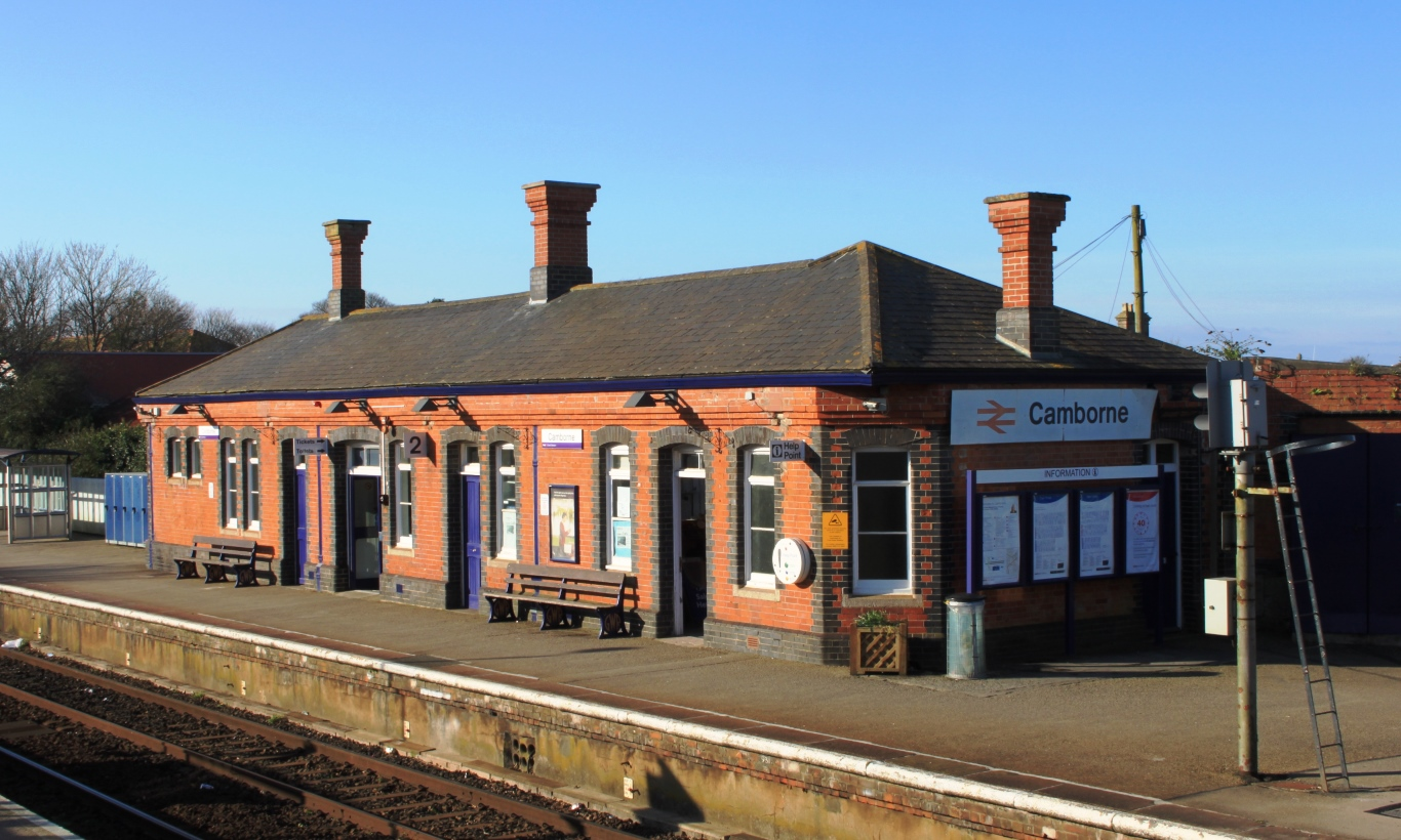 The railway station at Camborne in Cornwall. Despite the canopies and ancillary buildings being demolished many years ago, the core of the Great Western Railway's building still remains more than 100 years after it was built.